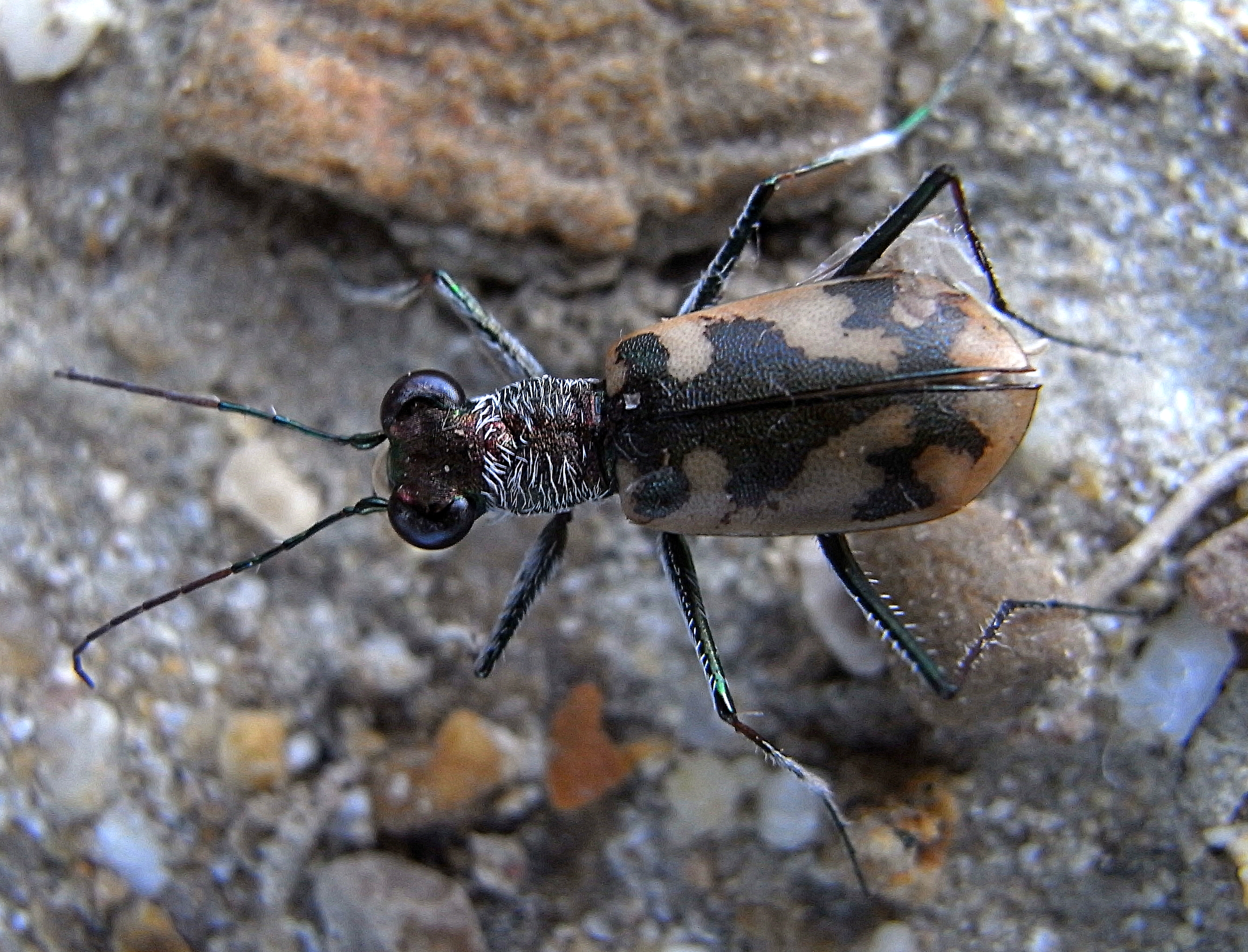 Cephalota circumdata Ricoh R8